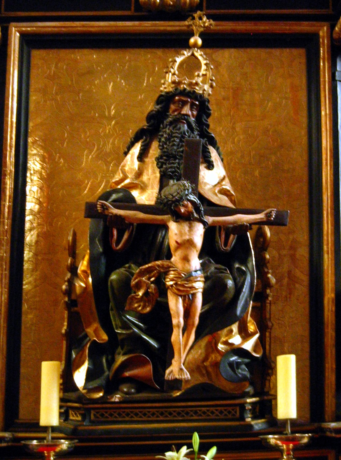 Throne of Mercy. Collegiate church of the Holy Saviour and All Saints in Dobre Miasto.